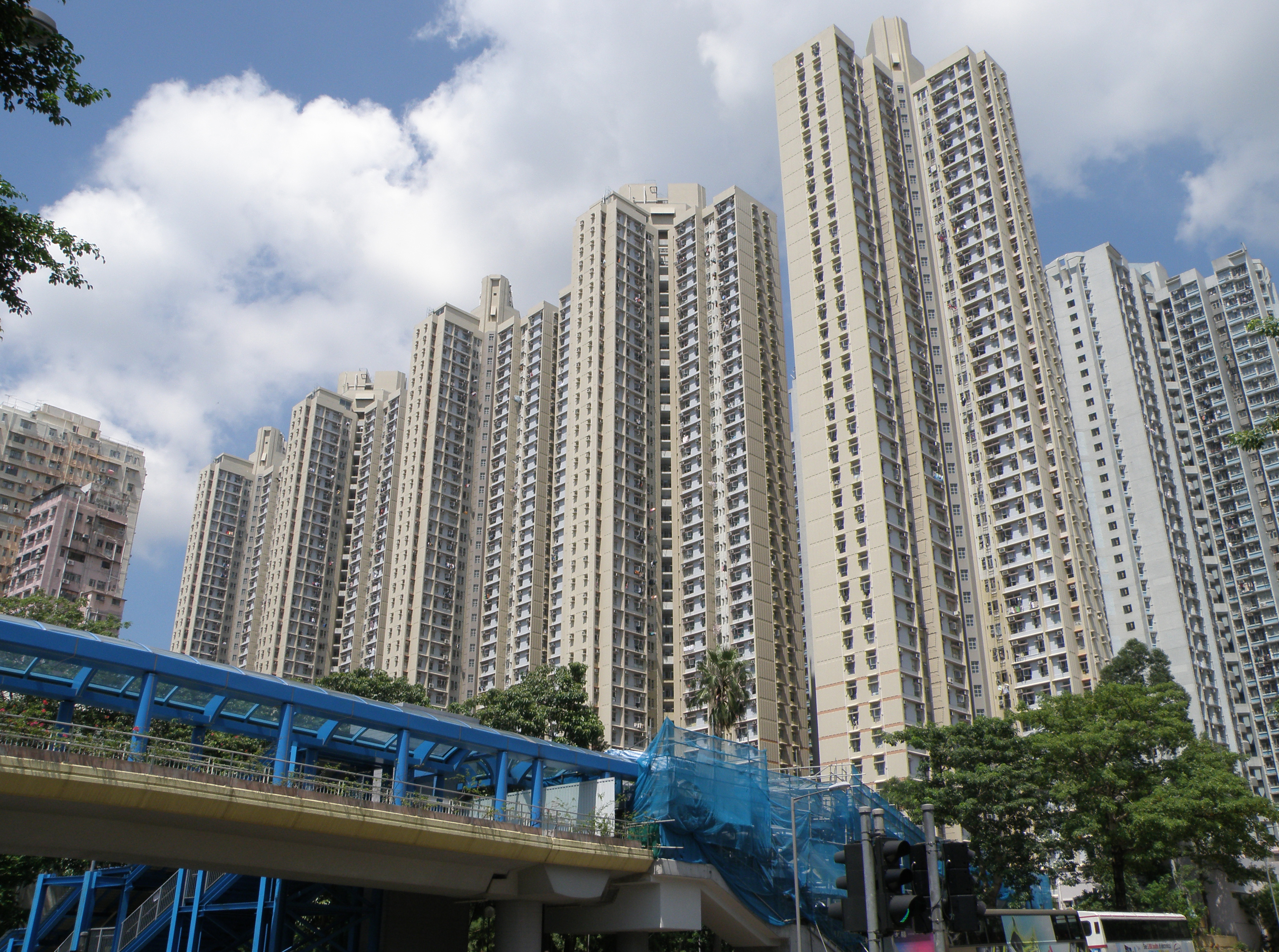 Tsz Hong Estate in Tsz Wan Shan, Hong Kong.